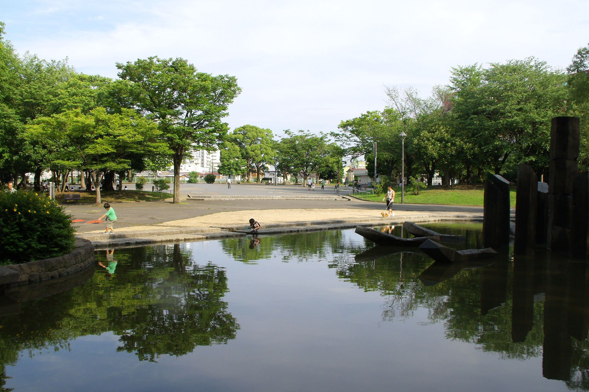 Tammachi (Tan-machi) Park in Kanagawa-ku, Yokohama, Japan.